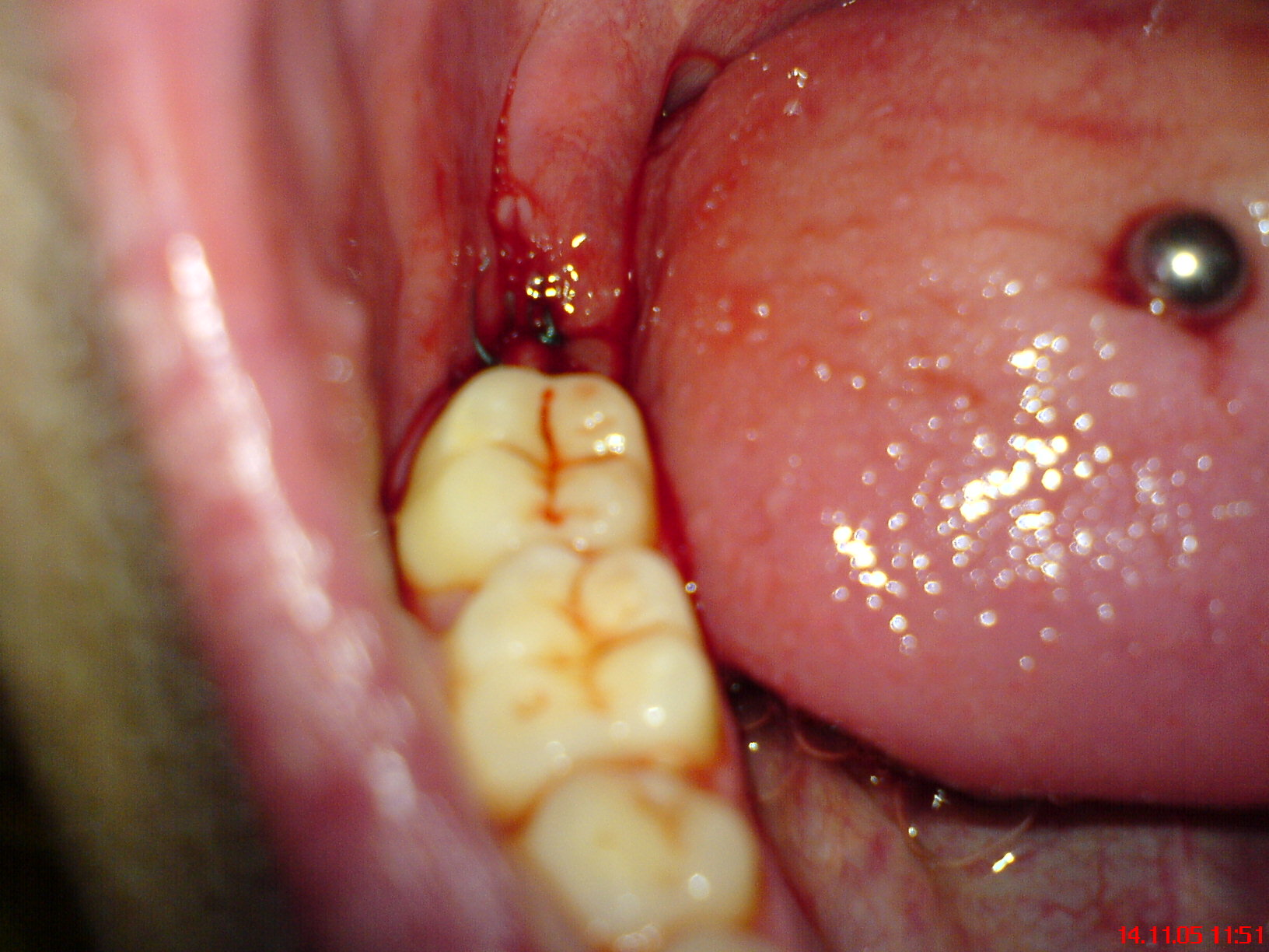 Sewn up wound after removing the lower right wisdom tooth